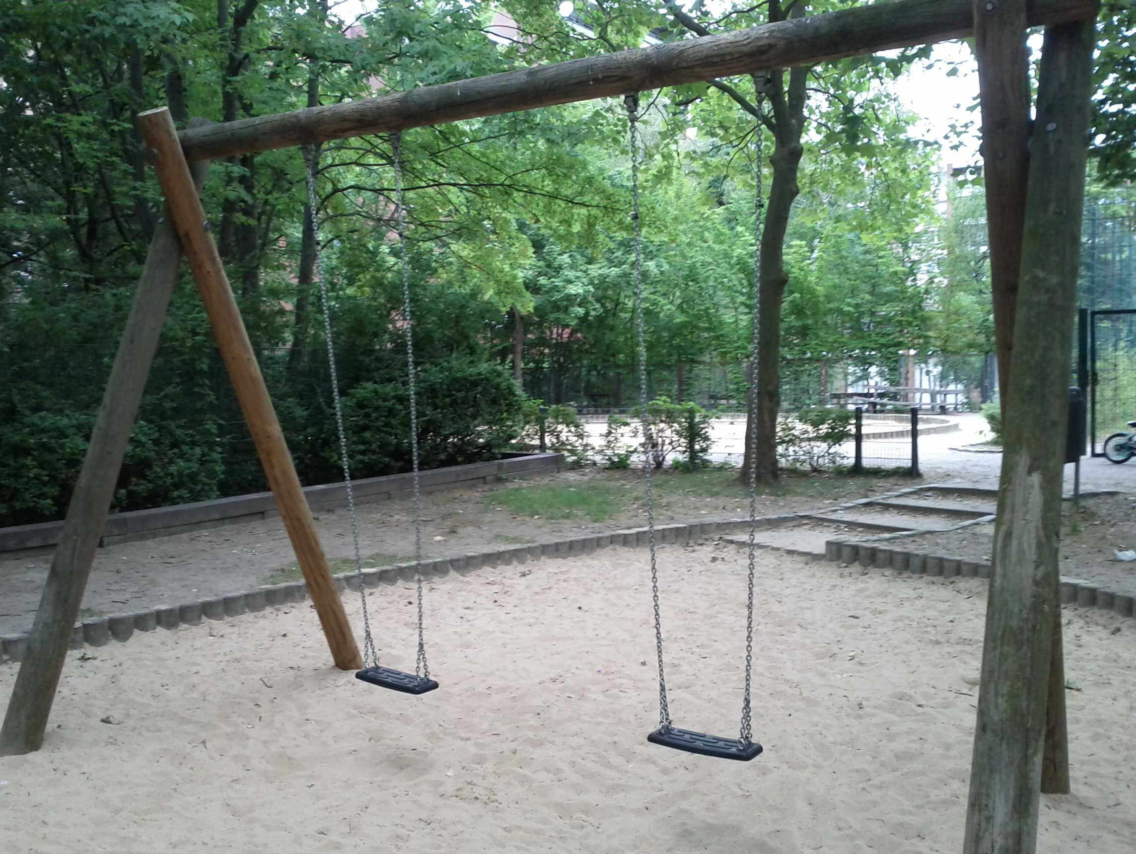 Playground swings over fall protection sand